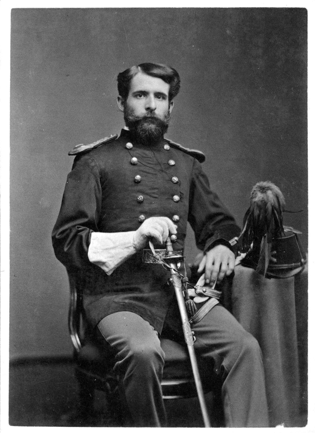 Military portrait of Lt. Charles Adiel Lewis Totten, circa 1875. Totten would go on to author the book Strategos (1880), a significant U.S. military wargame in the kriegsspiel tradition. His book Strategos and its description of the referee would become influential in the early history of role-playing games.